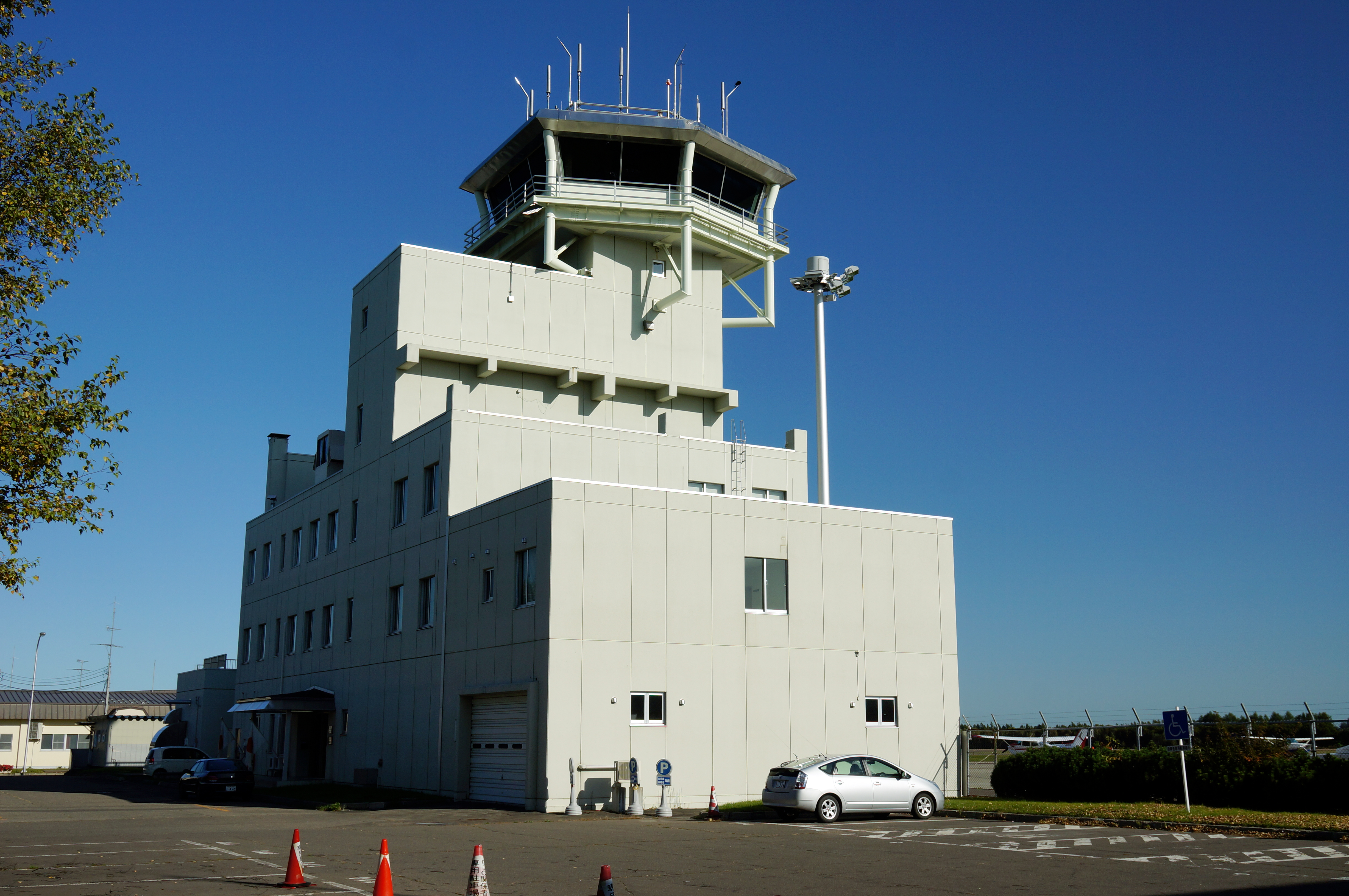 Tokachi-Obihiro Airport in Obihiro, Hokkaido prefecture, Japan.